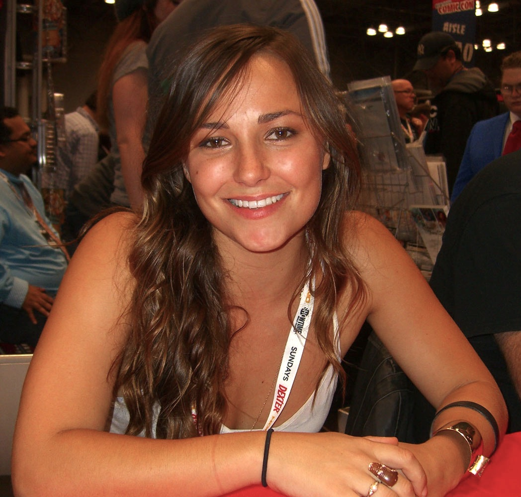 Actress/dancer Briana Evigan on Day 2 of the 2012 New York Comic Con, Friday October 12, 2012 at the Jacob K. Javits Convention Center in Manhattan. This photo was created by Luigi Novi. It is not in the public domain, and use of this file outside of the licensing terms is a copyright violation.